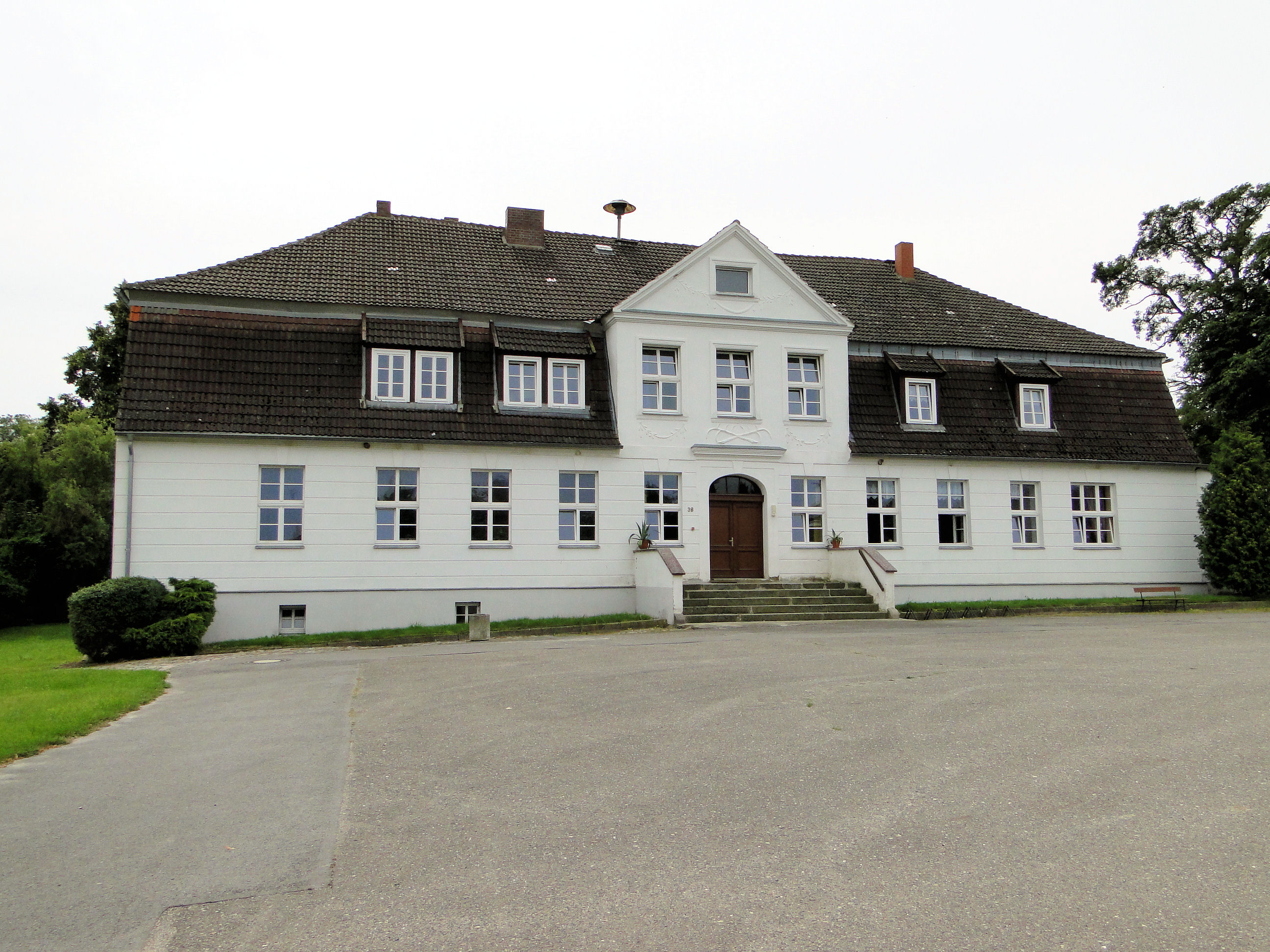 Manor house in Genzkow, district Mecklenburg-Strelitz, Mecklenburg-Vorpommern, Germany